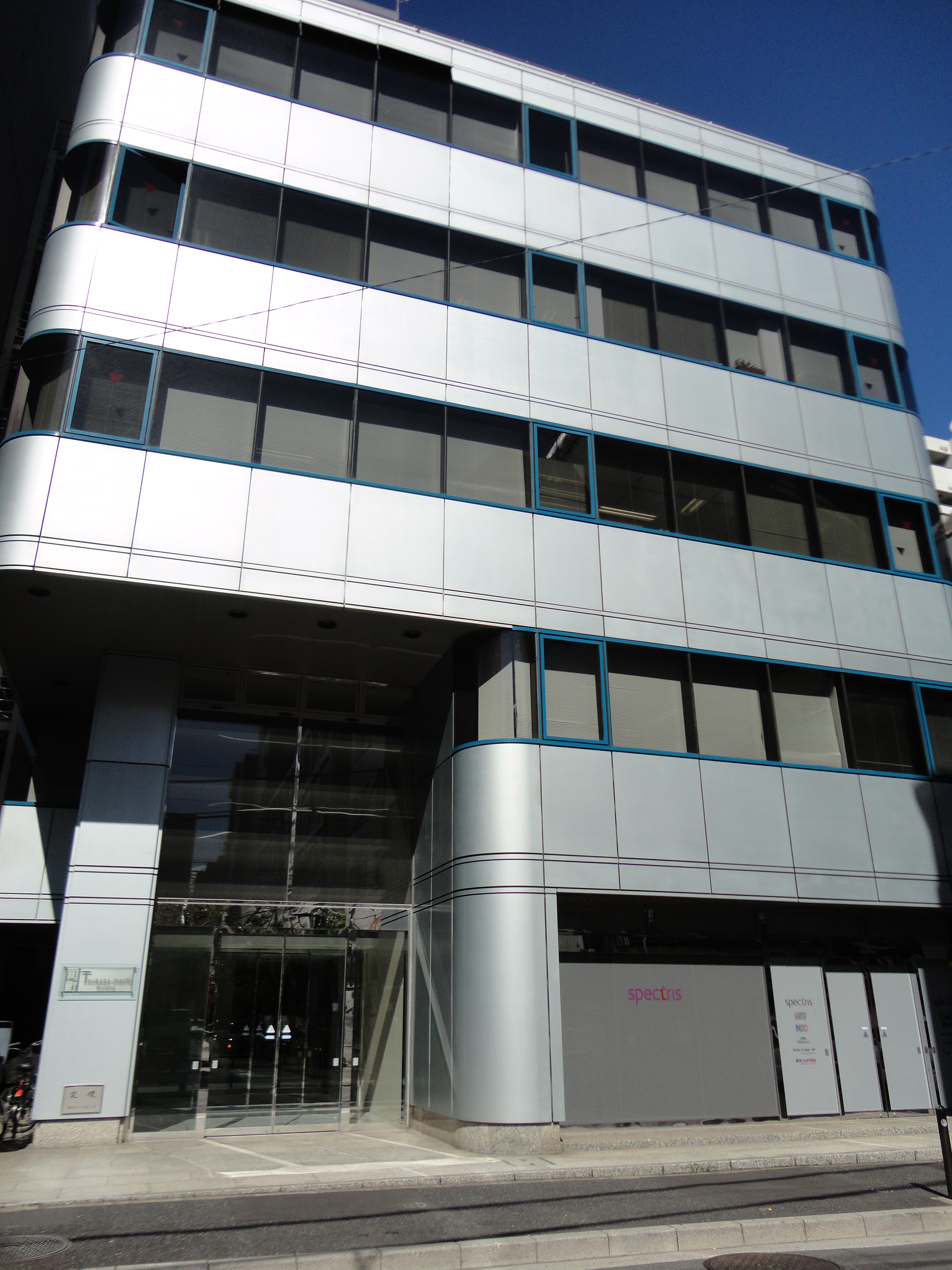 Bruel and Kjaer Office in Pointe-Claire, Québec, Canada